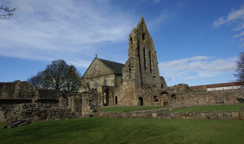 Kilwinning Abbey, Kilwinning, Scotland